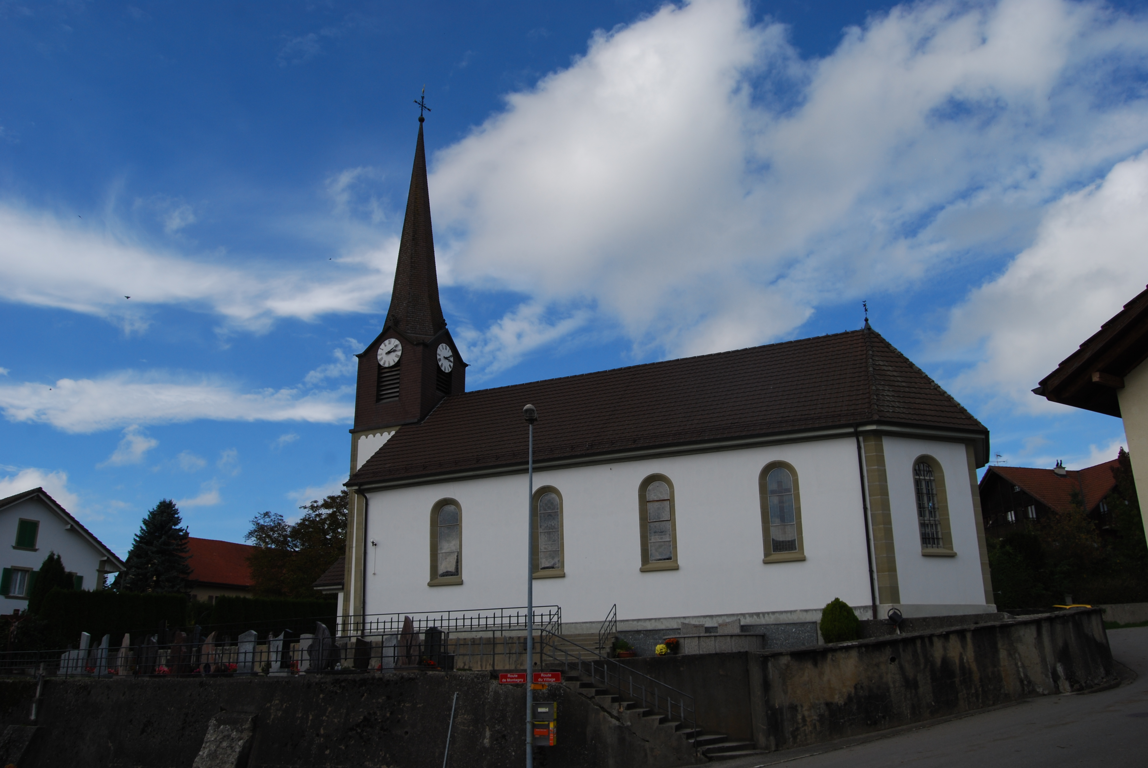 Catholic Church of Ponthaux, canton of Fribourg, Switzerland